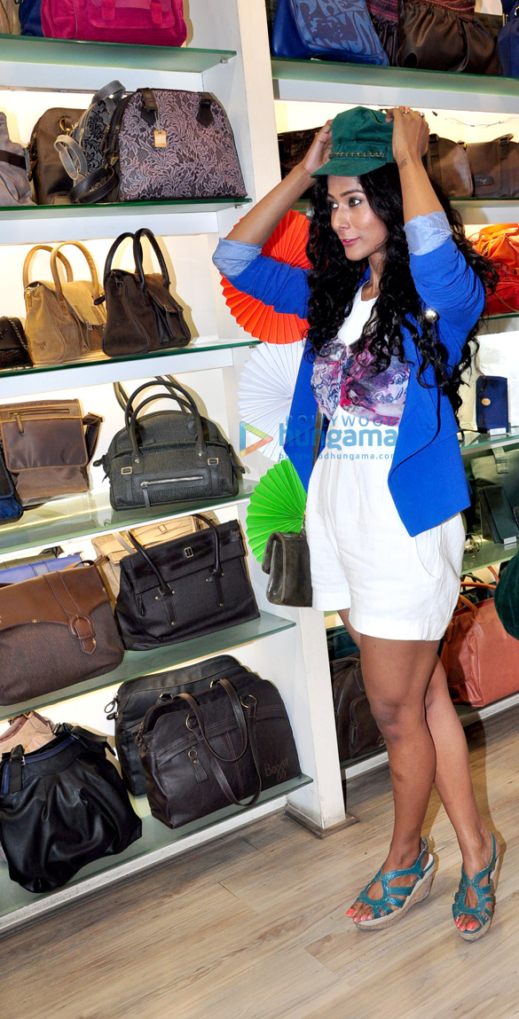 Ushoshi Sengupta at I AM SHE Press Conference. Photo: FilmiTadka